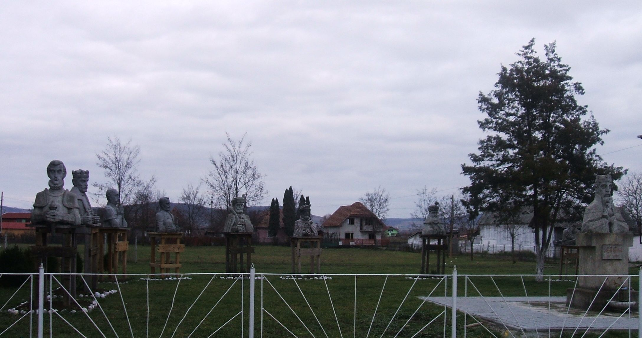 Statues on Glodeni/Marossárpatak of St. Stephen and Princes of Transylvania